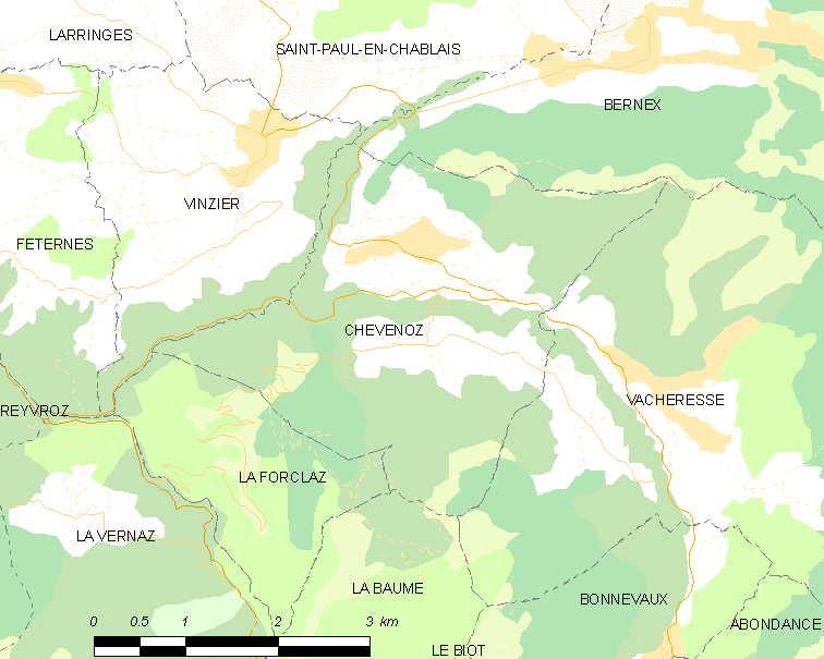 Map of French municipality Chevenoz